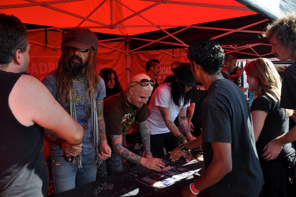 Rob Zombie, John 5 & Piggy D in a signing session.